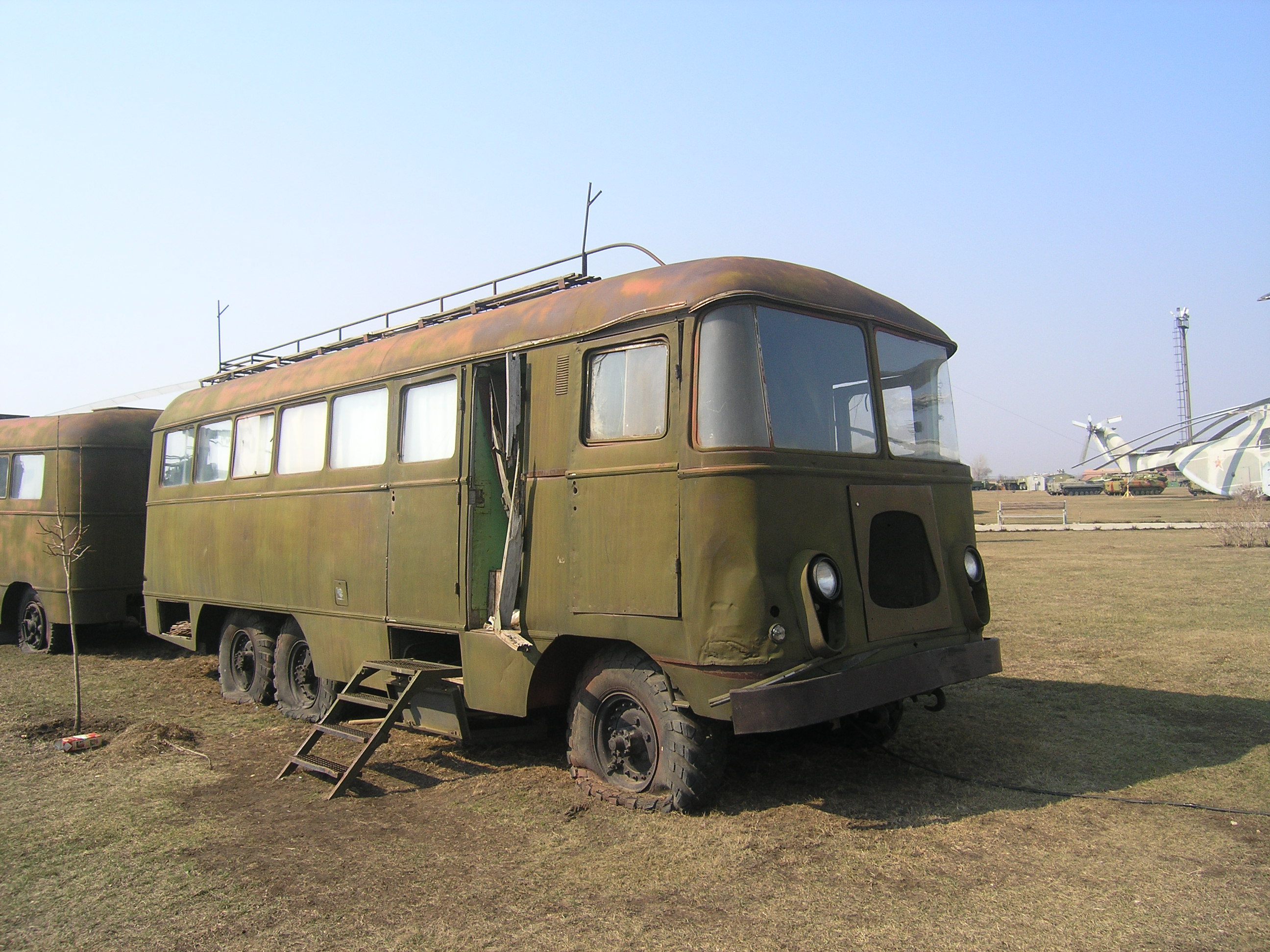 Bus on Zil-157 chassi. Technical museum Togliatti. Most likely a Progress-7.